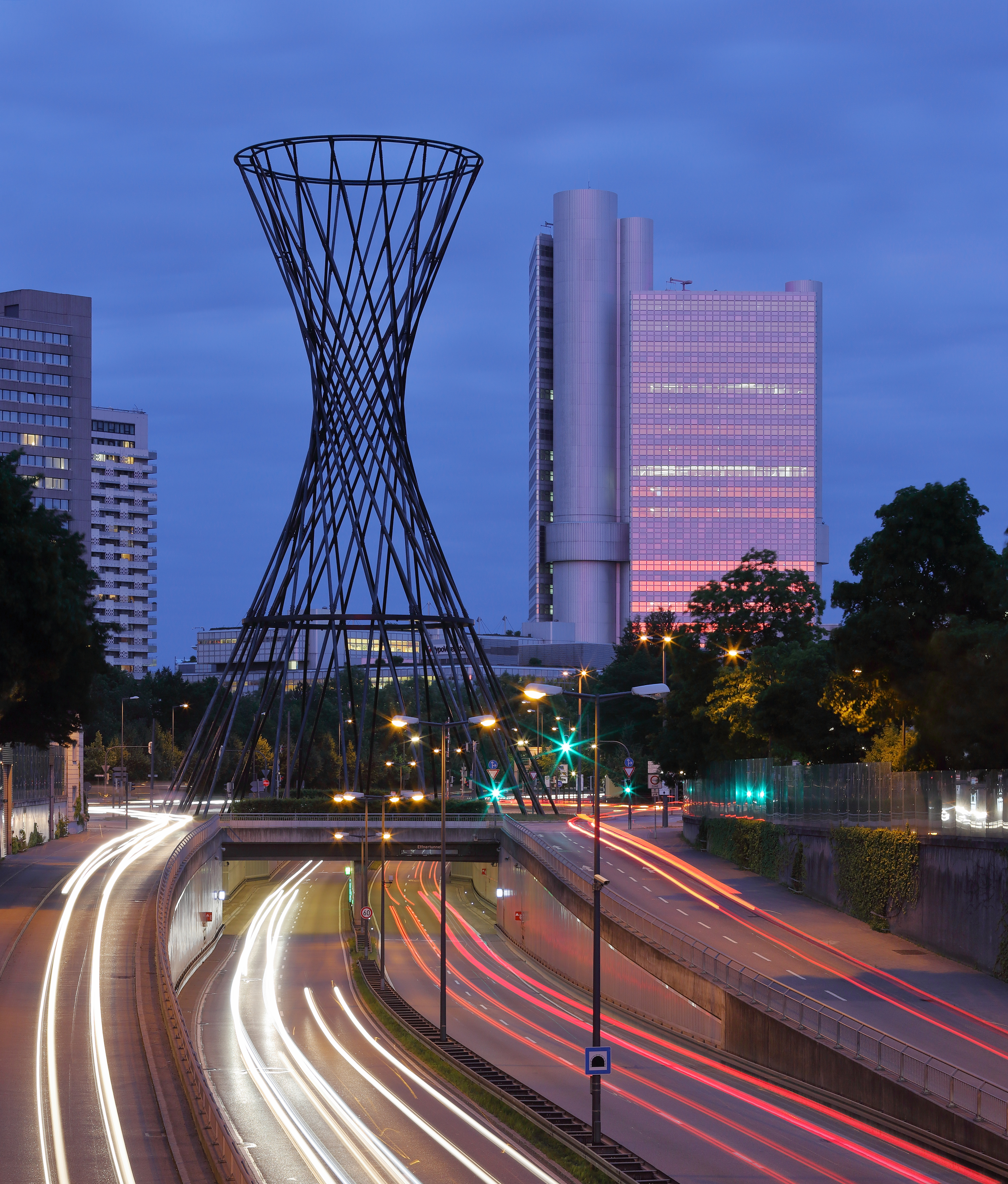 Munich's HVB Tower and "Mae West", a sculpture on Effnerplatz, at dusk.